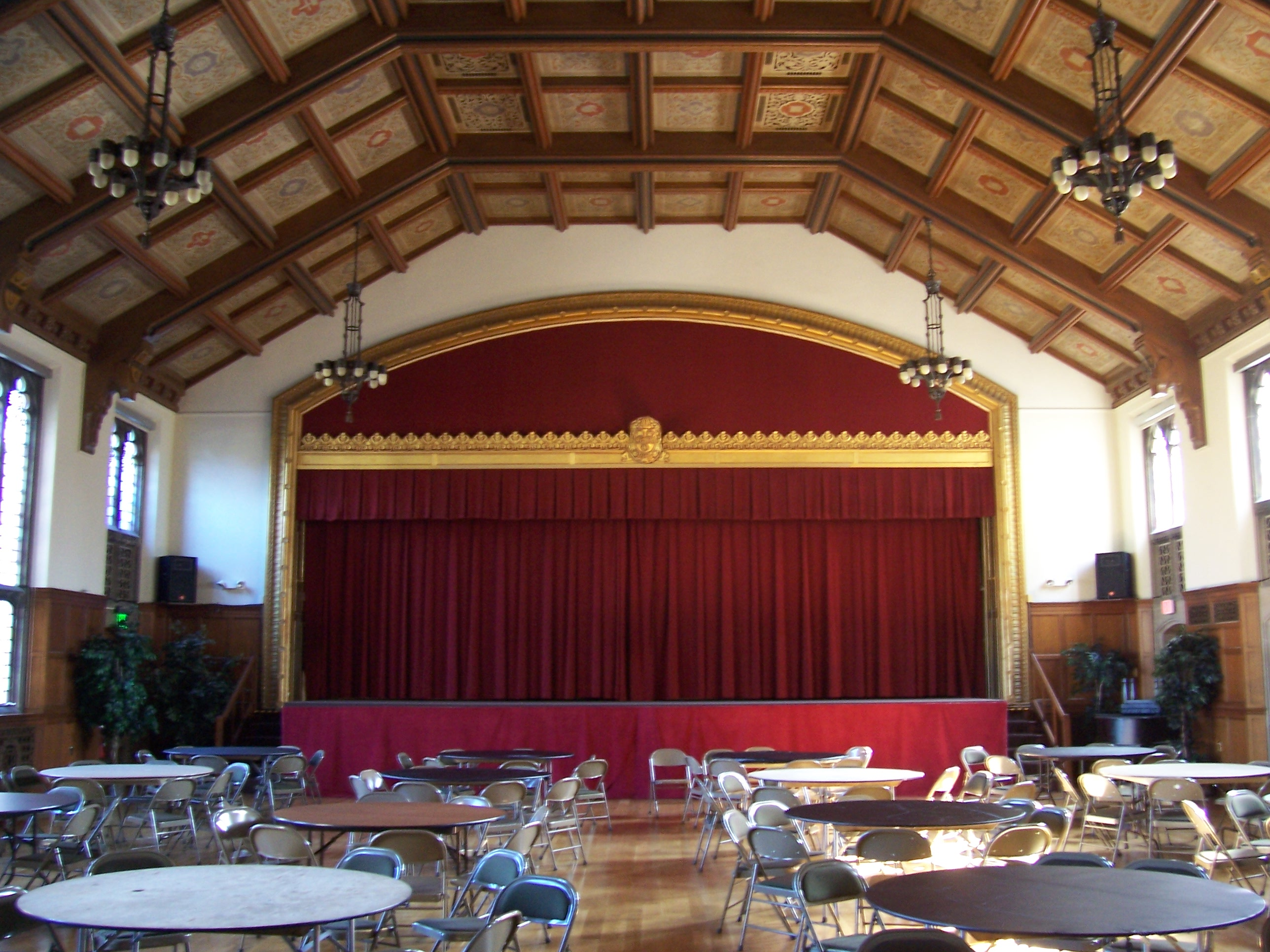 Ballroom in the Cutler Union wing of the Memorial Art Gallery